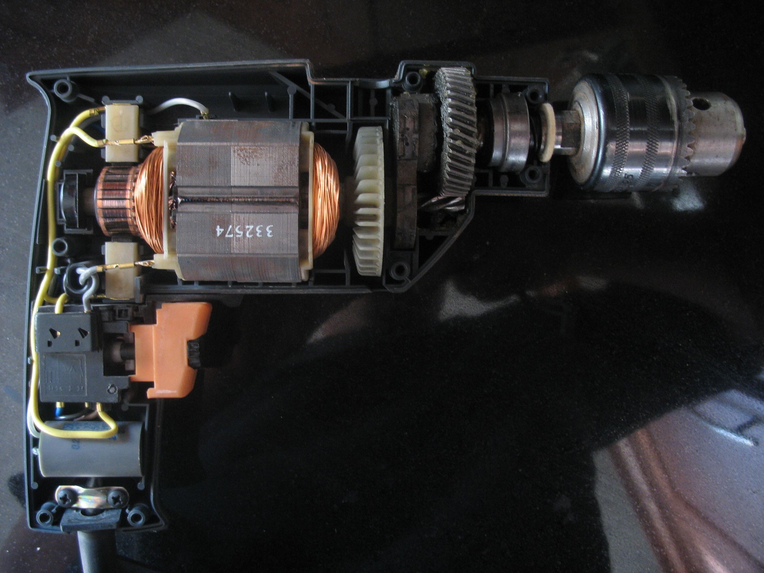 Inside of a drill